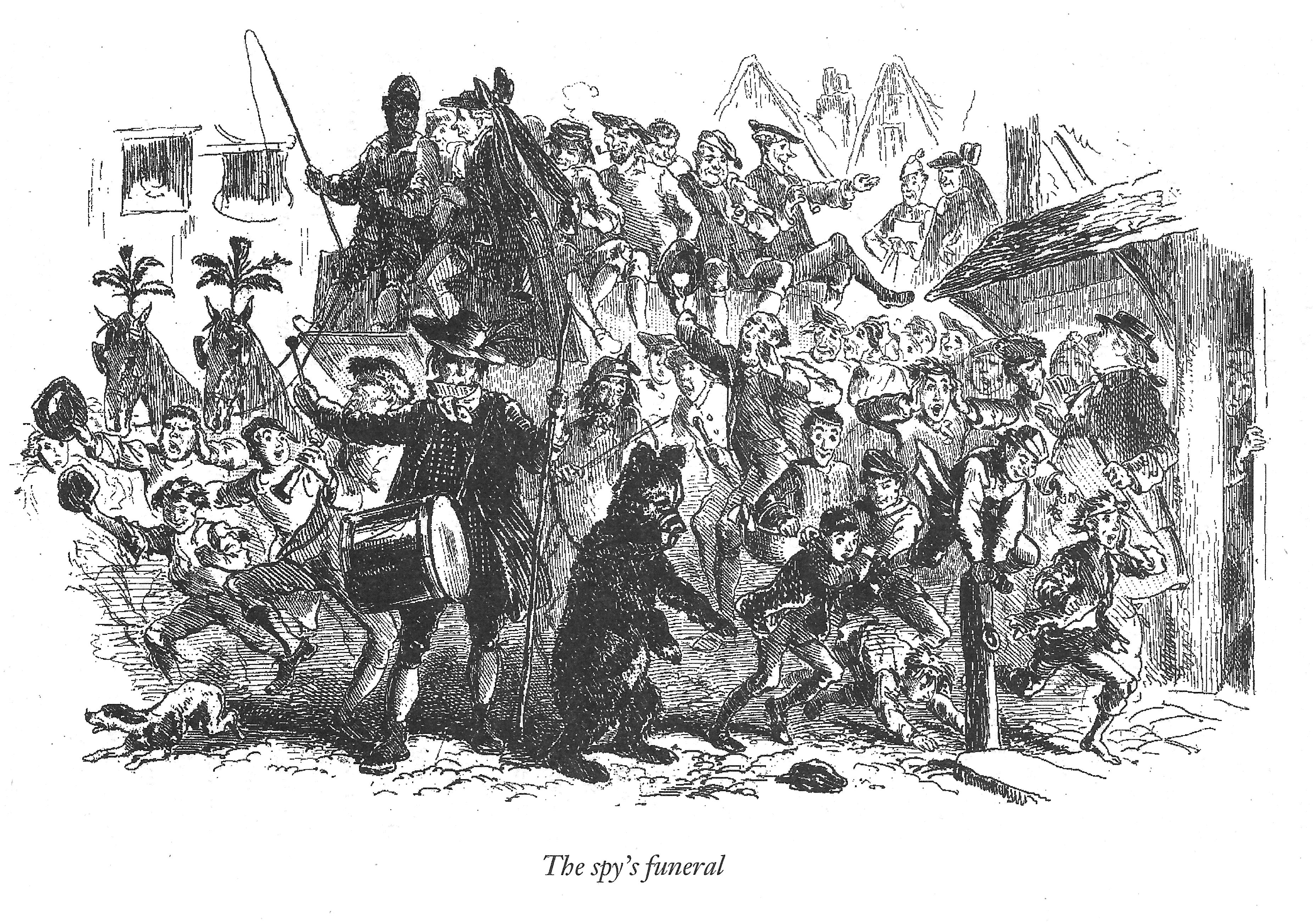 A Tale Od Two Cities, The Spy's Funeral, by Phiz